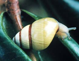 Achatinella sp.